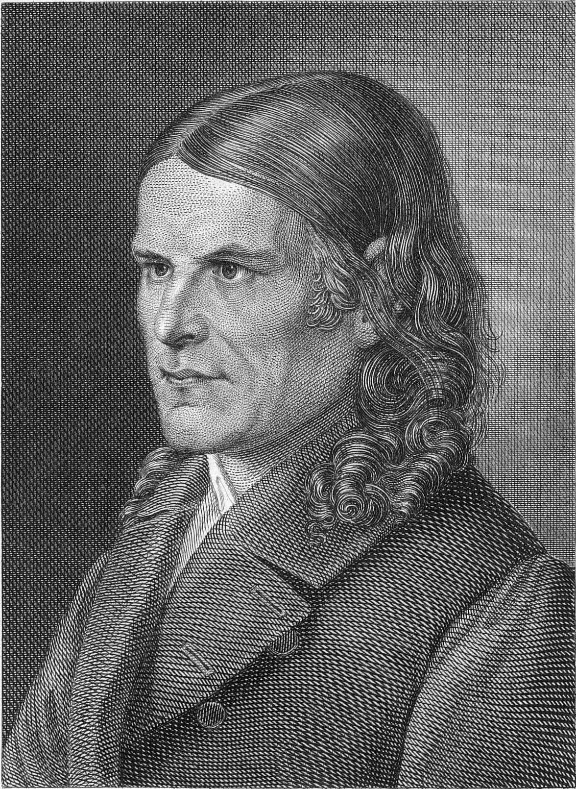 The German author Friedrich Rückert by his friend Carl Barth